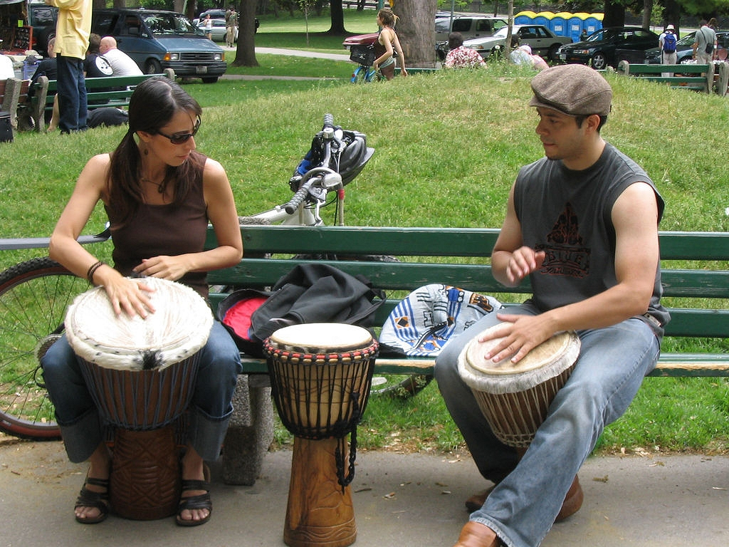 Learning the djembe in Queen's Park.